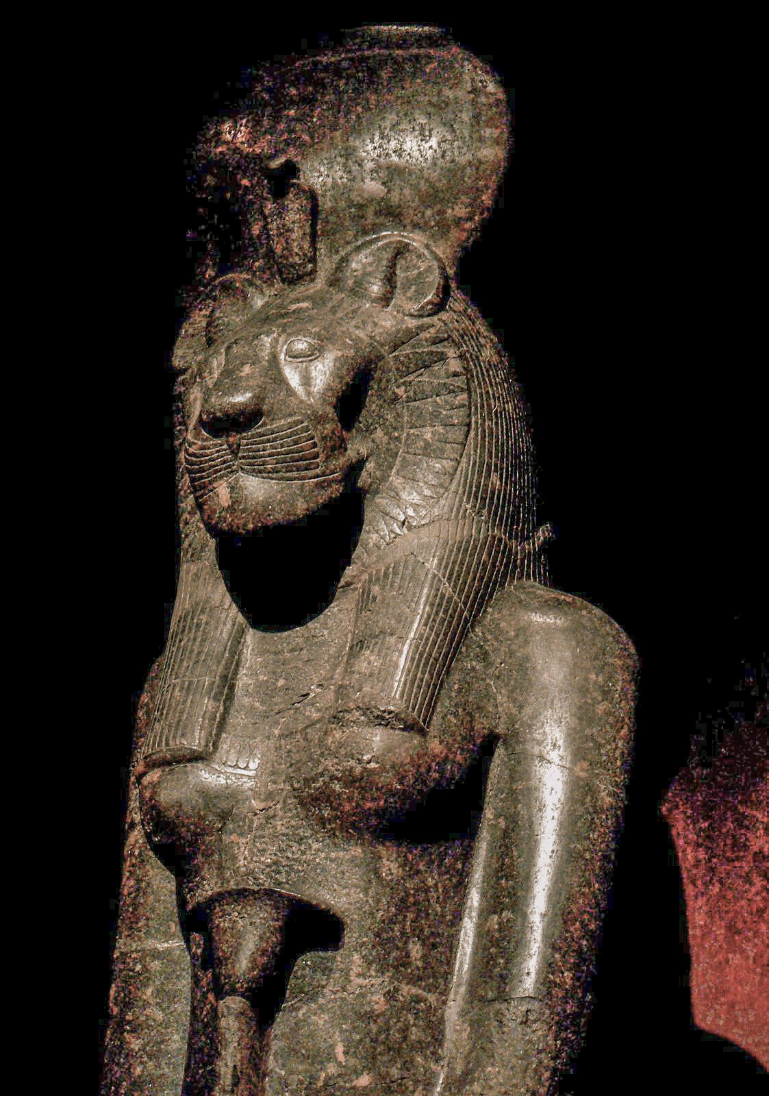 A statue of the Egyptian deity Sekhmet in the Egyptian Museum of Turin. museoegizio.it N. Inv. C. 260